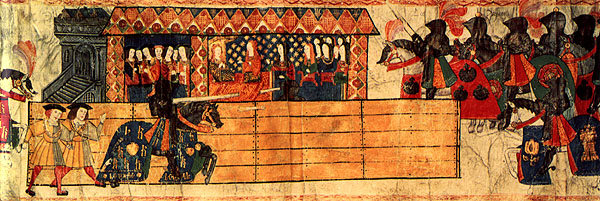 Catalina de Aragon watching Henry VIII of England joust, College of Arms, early 16th century. Catherine of Aragon was the first wife of King Henry VIII. of England.